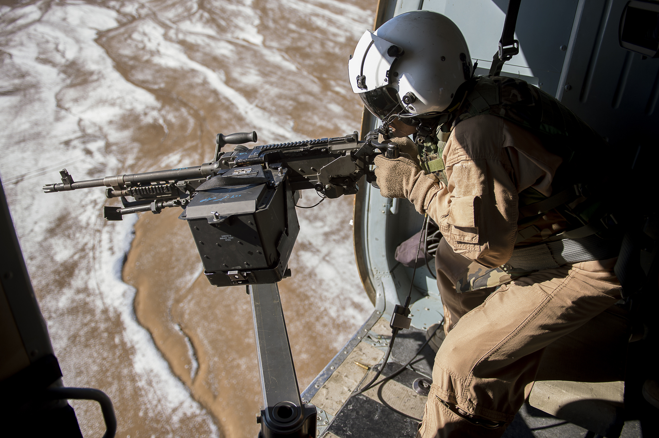 Afghan Air Force Sgt. Razeg, a Gunner, fires an M-240 weapon from an Mi-17 Helicopter during a mission from Kabul, Afghanistan, International Airport, Nov. 29, 2012. The flight was a “check ride” mission, allowing an Afghan Air Force Copilot and Gunner to further train and qualify in their respective jobs. (U.S. Air Force photo/Tech. Sgt. Dennis J. Henry Jr.)